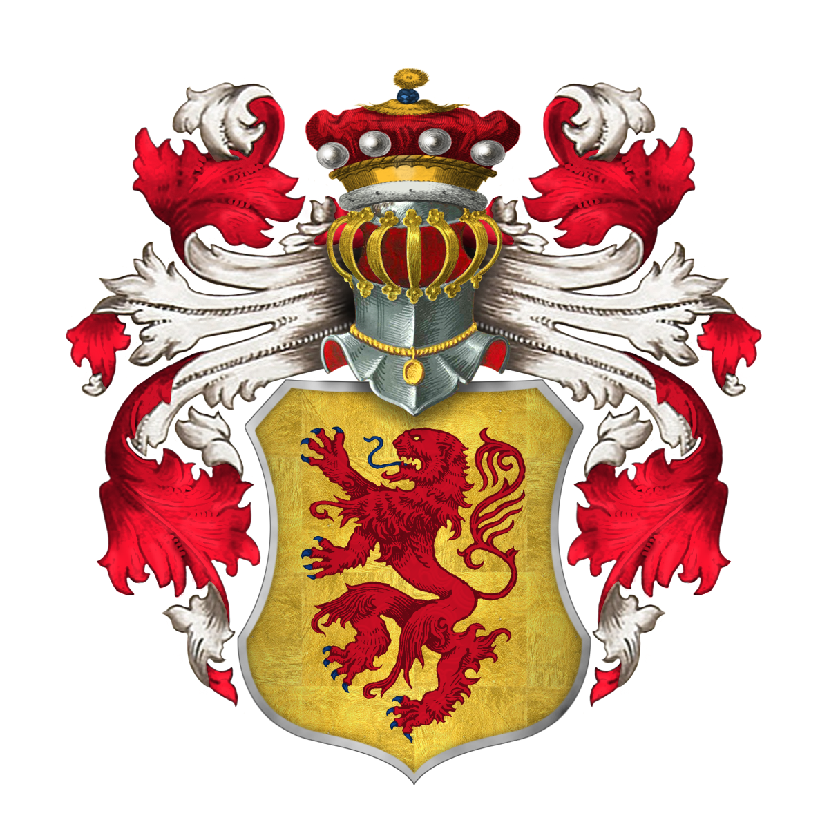 Coat of arms of Cherleton, Barons Cherleton